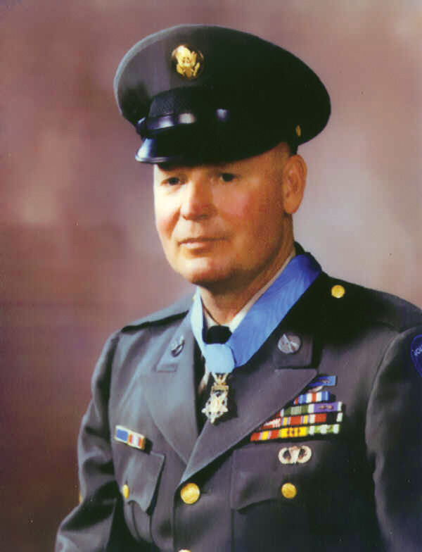 United States Army Platoon Sergeant Finnis D. McCleery received the Medal of Honor for his actions in the Vietnam War